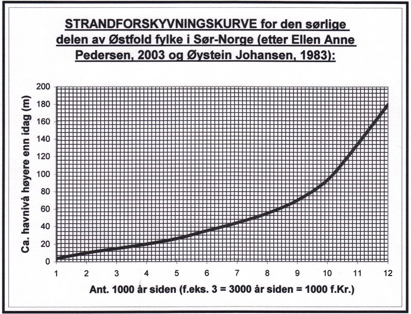 Ancient sea-level curve, southern part of Østfold, Norway